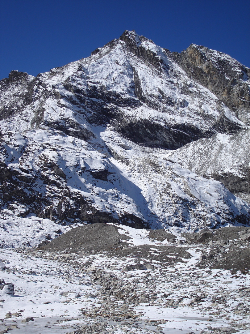 Paul Metcalf